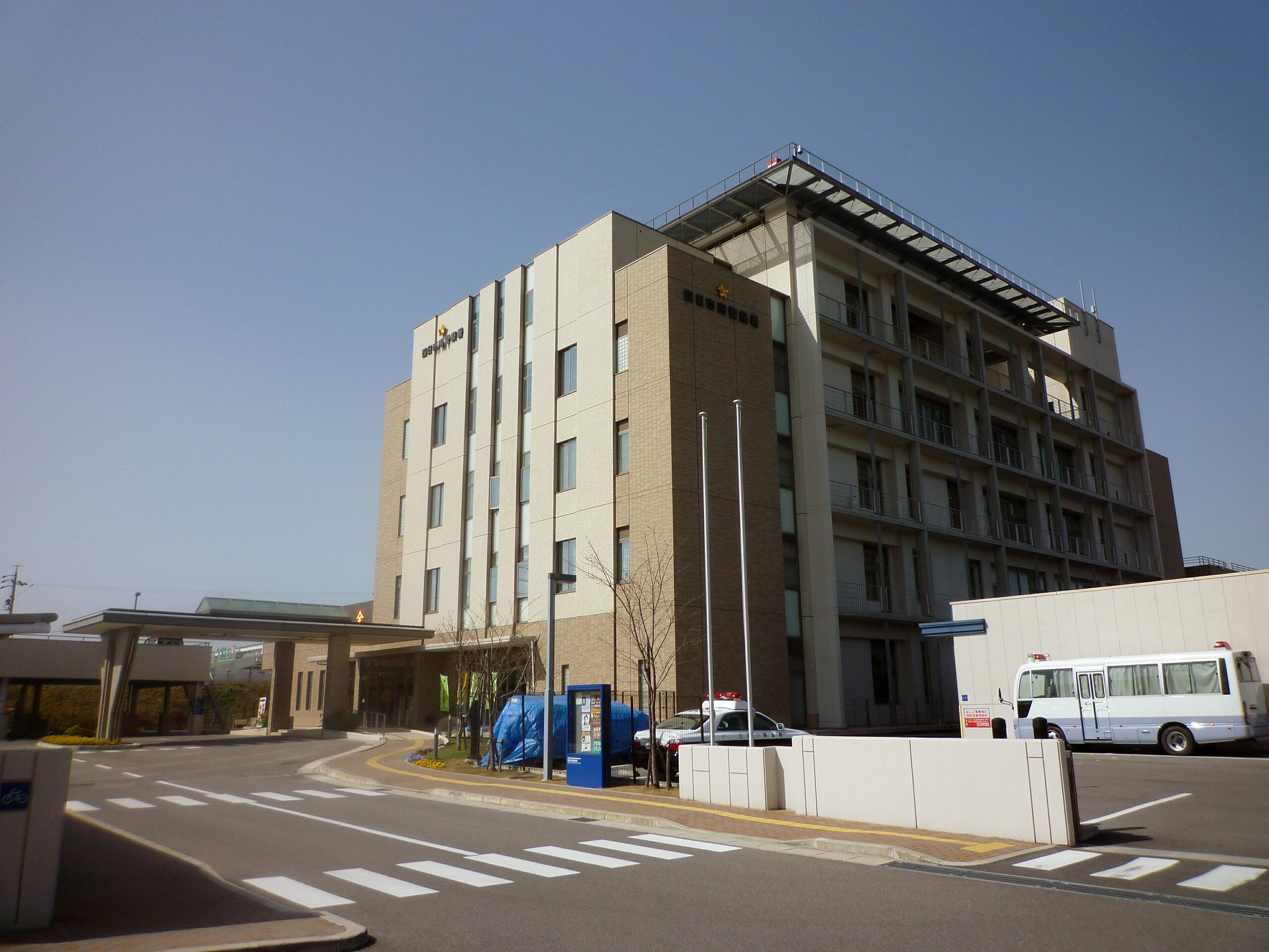 The "Yokkaichi-Minami Police Staion" in Shinshō, Yokkaichi City, Mie Prefecture, Japan.